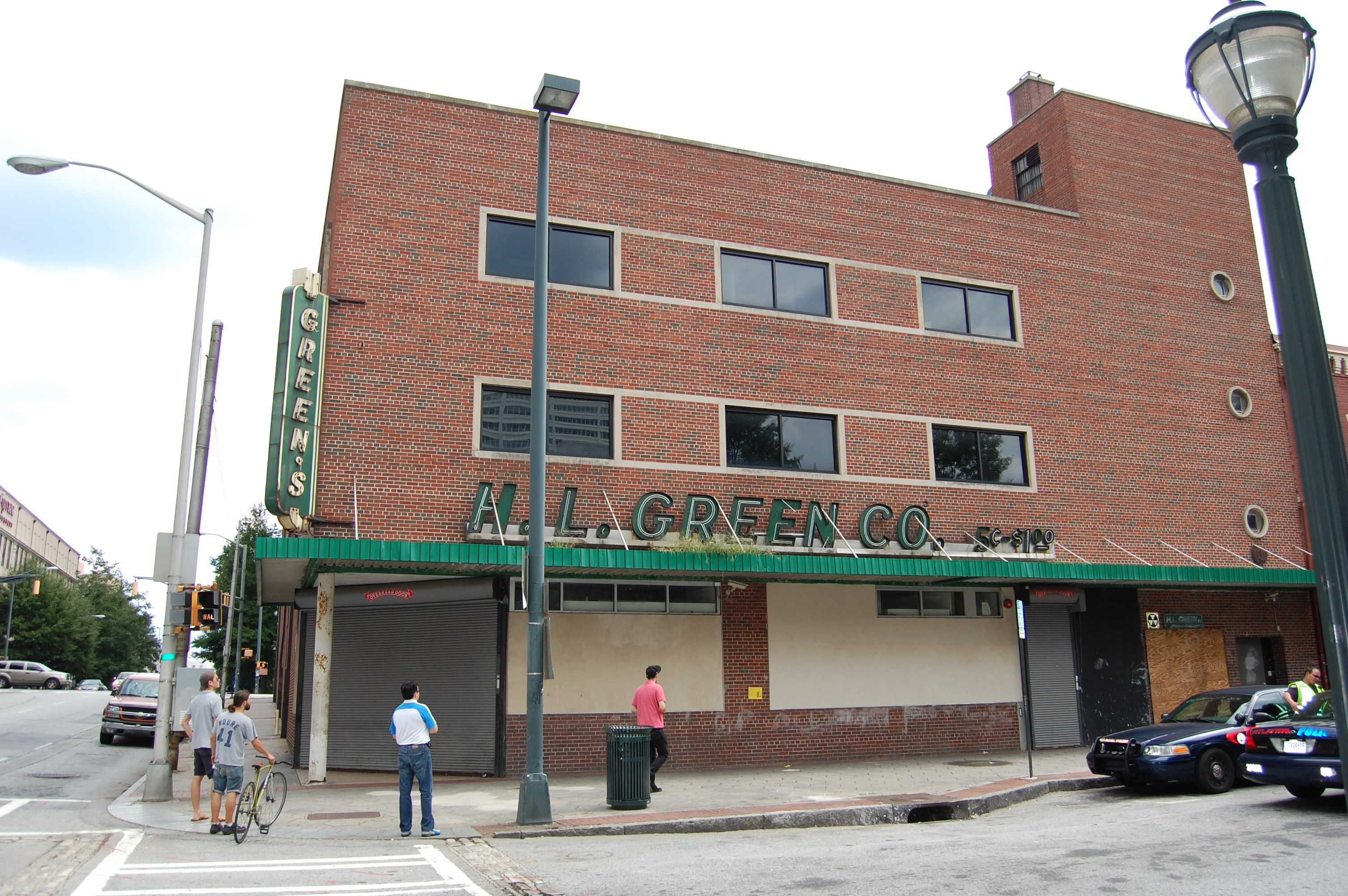 Atlanta Bass Furniture Building